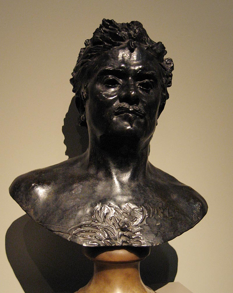 Bust of Honoré de Balzac by Auguste Rodin, bronze (1891 – 1892), in the Victoria and Albert Museum.